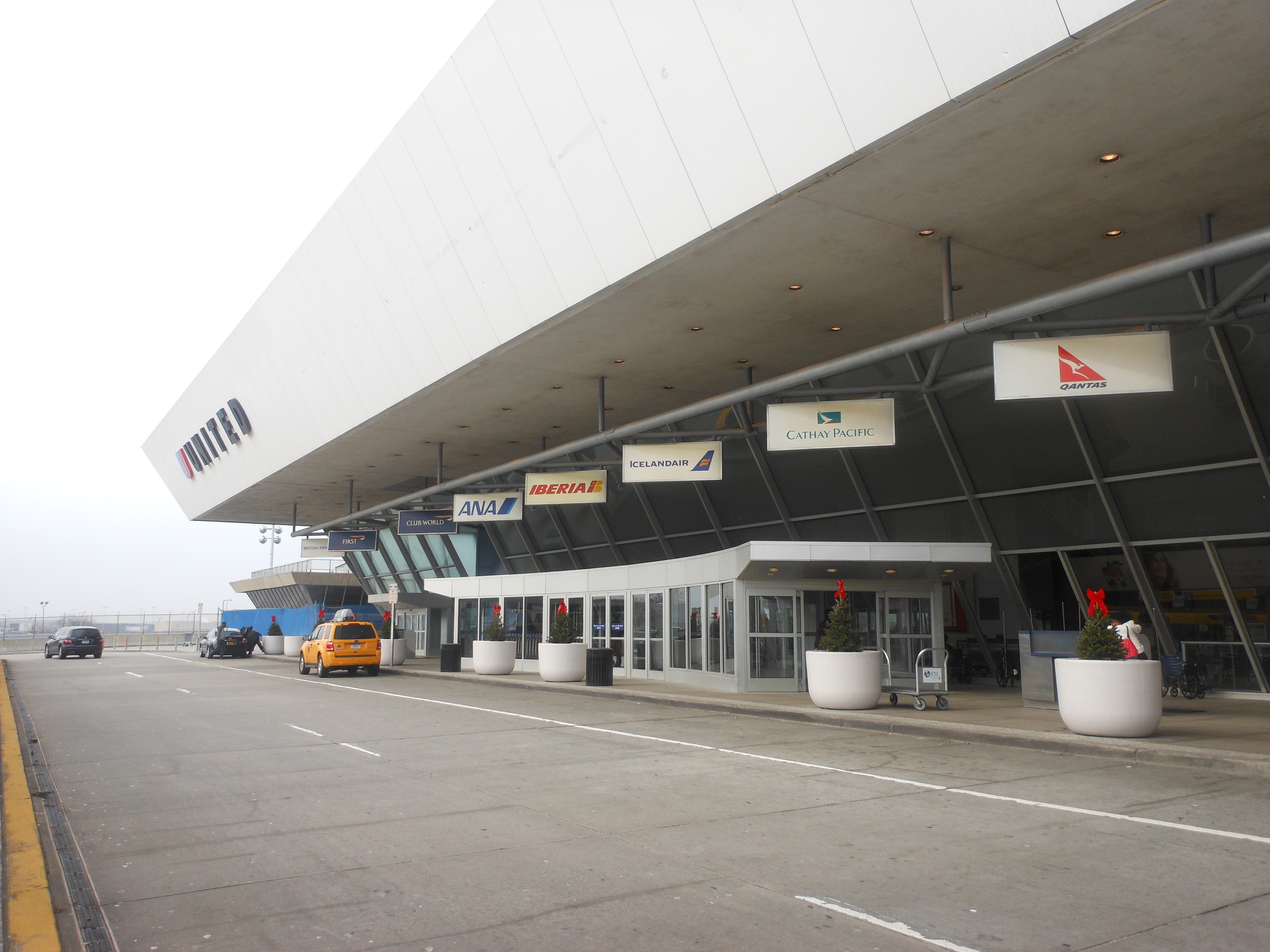 JFK Airport Terminal 7